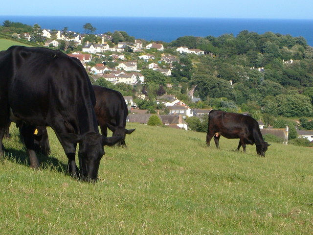 Cattle at Holcombe. Devon clotted cream factory. In the background is Holcombe village and the sea. Taken from Oak Hill Cross Road.